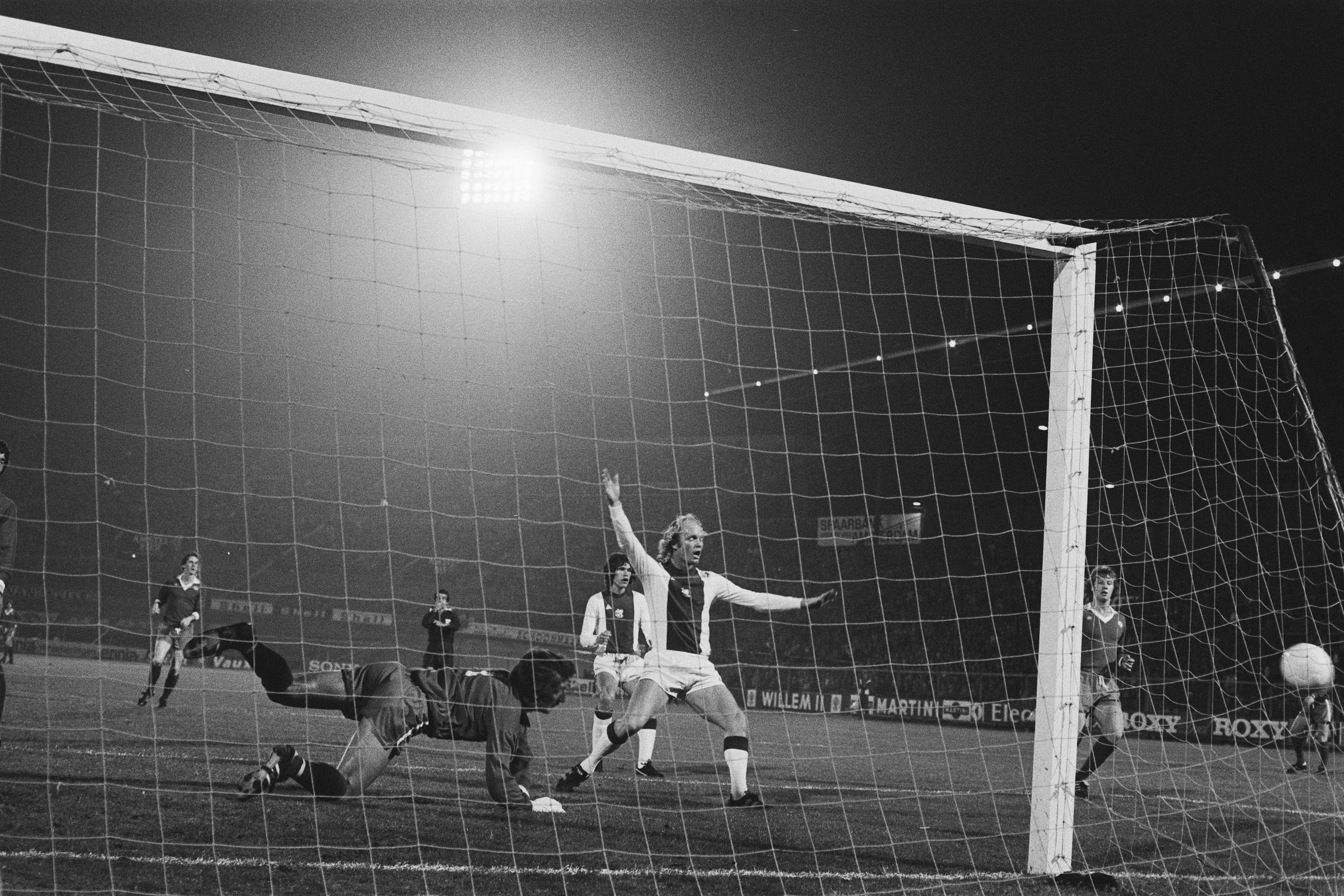 Ajax playing Manchester United (UEFA Cup, 1976-77). Ruud Geels misses. Keeper Alex Stepney. Amsterdam, 15 September 1976